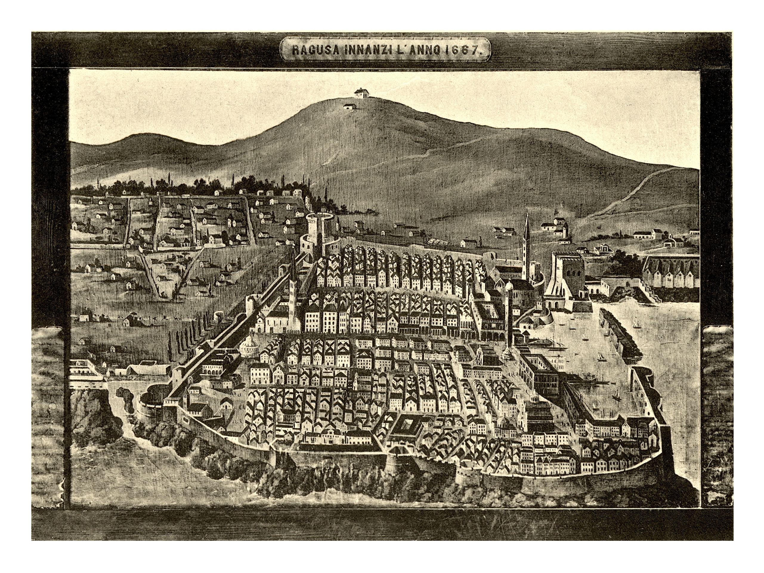 Denkmäler der Kunst in Dalmatien, Herausgegeben von Georg Kowalczyk, mit einer Einleitung von Cornelius Gurlitt. 132 Lichtdrucktafeln nach Naturaufnahmen des Herausgebers Georg Kowalczyk sowie nach Kupfern aus dem Werke von Robert Adam: RAGUSA,1667 (today's Dubrovnik) [not the Ruins of the Palace of the Emperor Diocletian at Spalat(r)o, 1764!] Wien, 1910, Verlag von Franz Malota Scanprojekt Bundesdenkmalamt Österreich This scan or this PDF-file was created within the Austrian Wikipedia-project Denkmalpflege Österreich (German only) supported by Wikimedia Germany and Wikimedia Austria as part of the Wikipedia community-project to collect public domain documents from the library of the Heritage Monuments Board of Austria. This document describes or depicts an object which is located in Croatia today. Texts are written in German language. Send requests for uncompressed scans to Hubertl. This work is in the public domain in its country of origin and other countries and areas where the copyright term is the author's life plus 100 years or less. You must also include a United States public domain tag to indicate why this work is in the public domain in the United States. This file has been identified as being free of known restrictions under copyright law, including all related and neighboring rights.